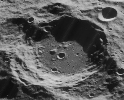 Oblique view of Pontécoulant, facing west, on the moon.